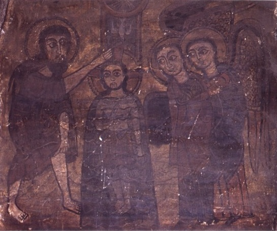 Mural from the church of Yemrehana Krestos at Lalibela showing the baptism of Jesus Christ. The Yemrehana Krestos church is one of the few known Ethiopian churches dating to the Zagwe period.